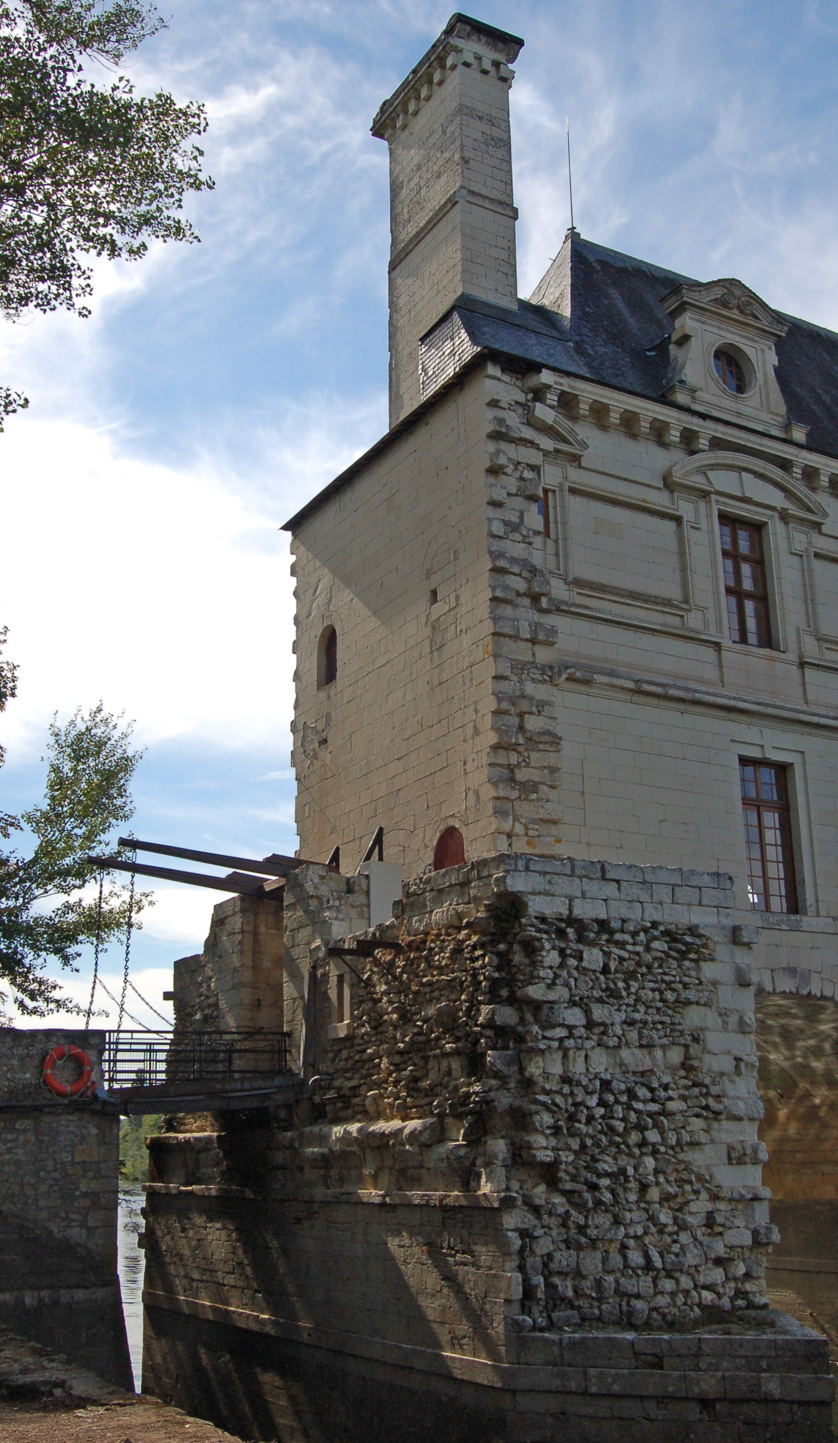 South side of the château de Chenonceau